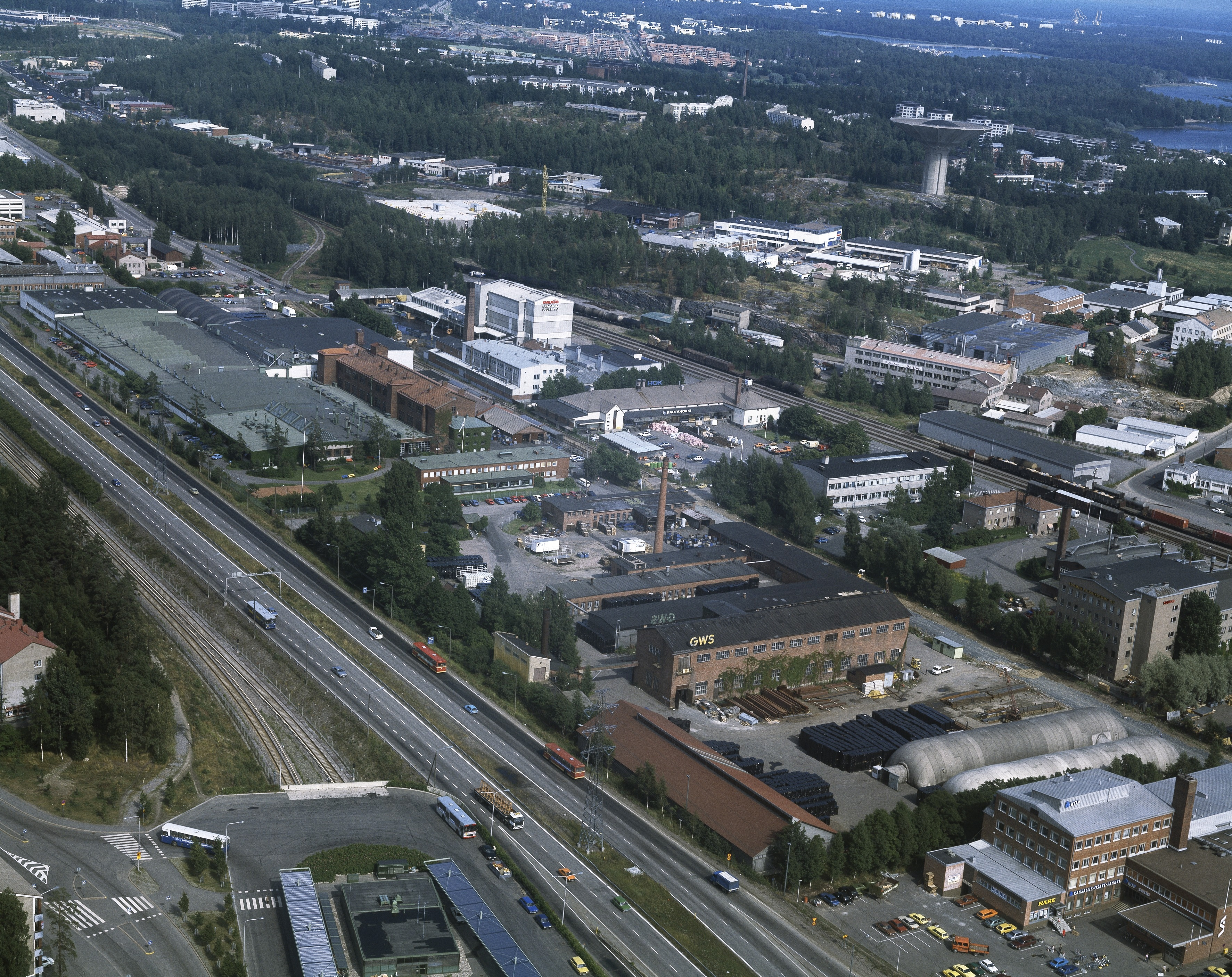 Aerial photograph of GWS-Sohlberg Oy factory buildings in Herttoniemi, Helsinki.